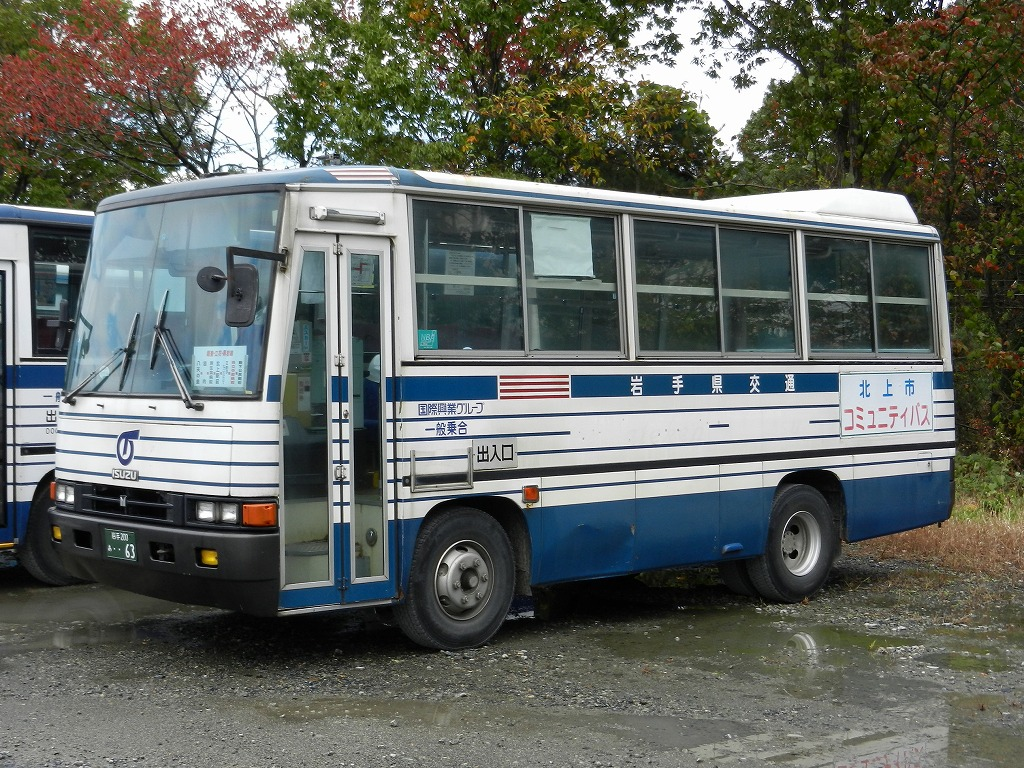 Iwateken Kotsu Isuzu Journey Q (U-MR132D)for Kitakami city community bus